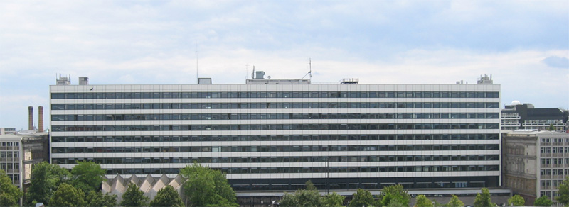 Main building of the Technische Universität in Berlin